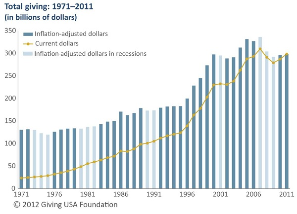 Total Giving in USA dollars